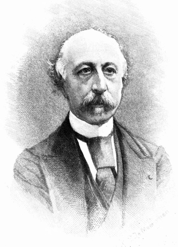 Engraved portrait of Théodore Juste